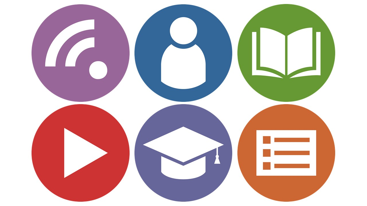 A visual collection of the logos representing the applications included in the United States Army and Department of Defense collaborative effort called milSuite